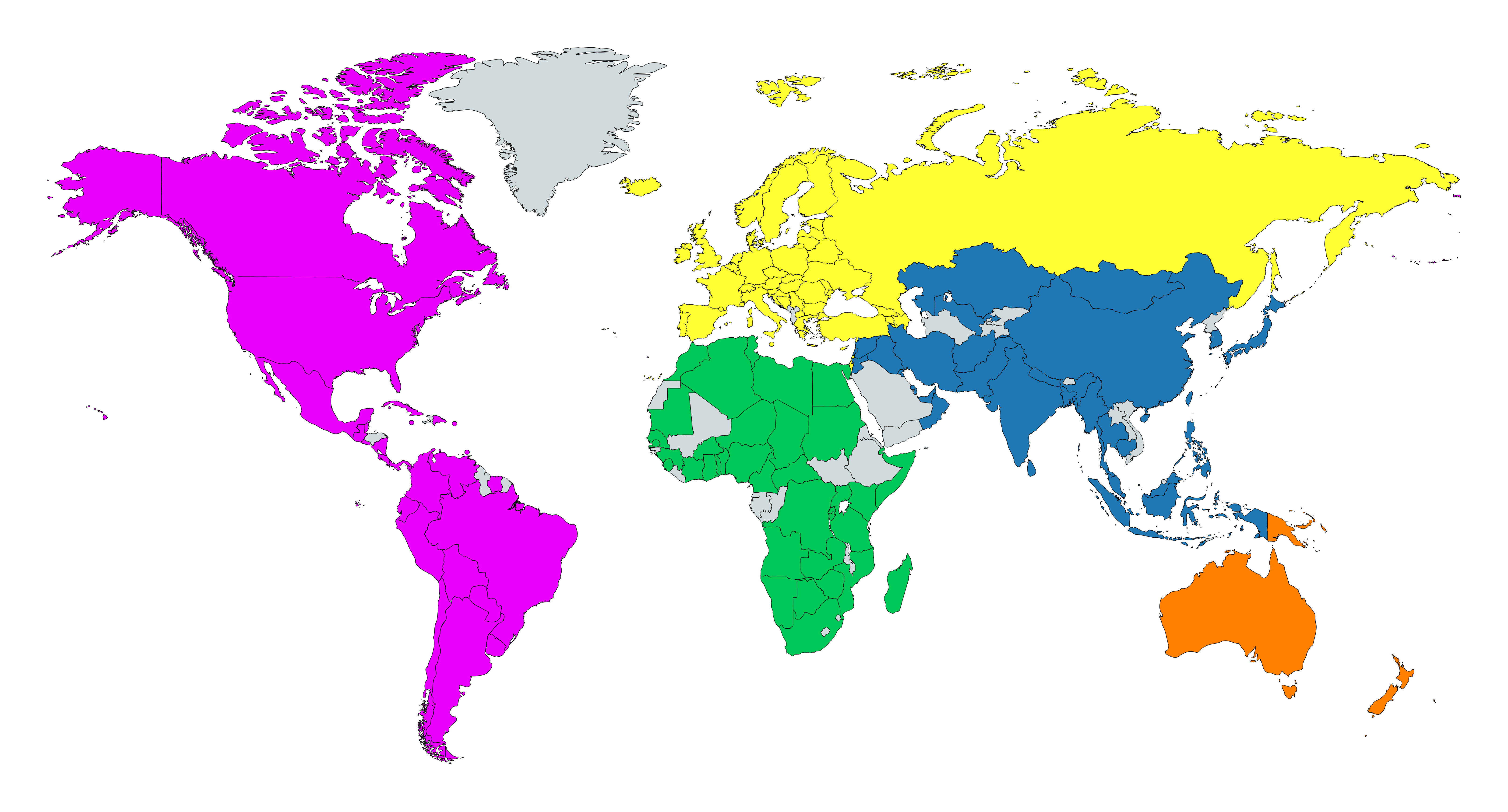 International Triathlon Union members by region